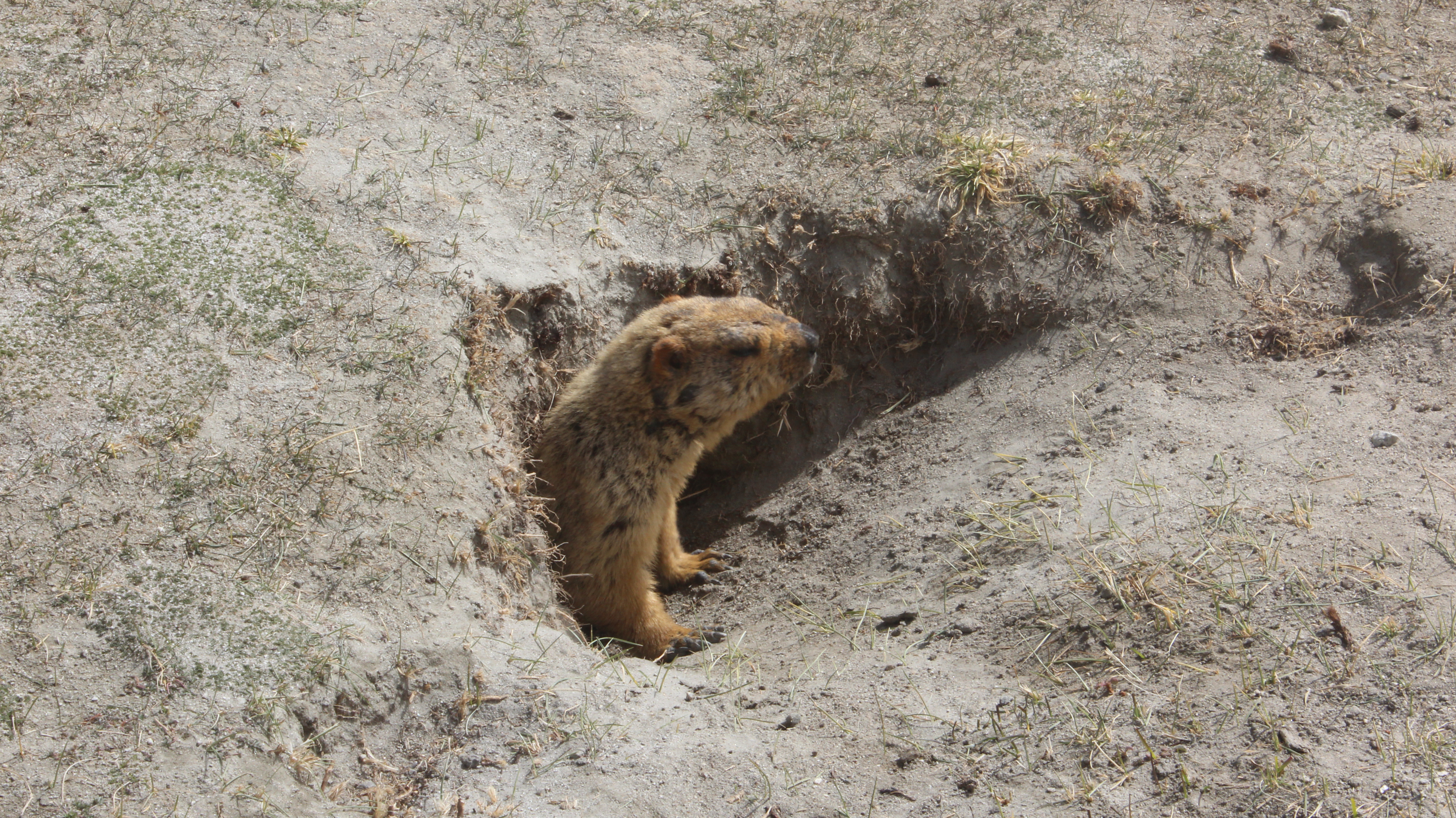 This marmot was playing hide and seek with me